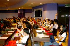 สัมนานักศึกษาปริญญาโท